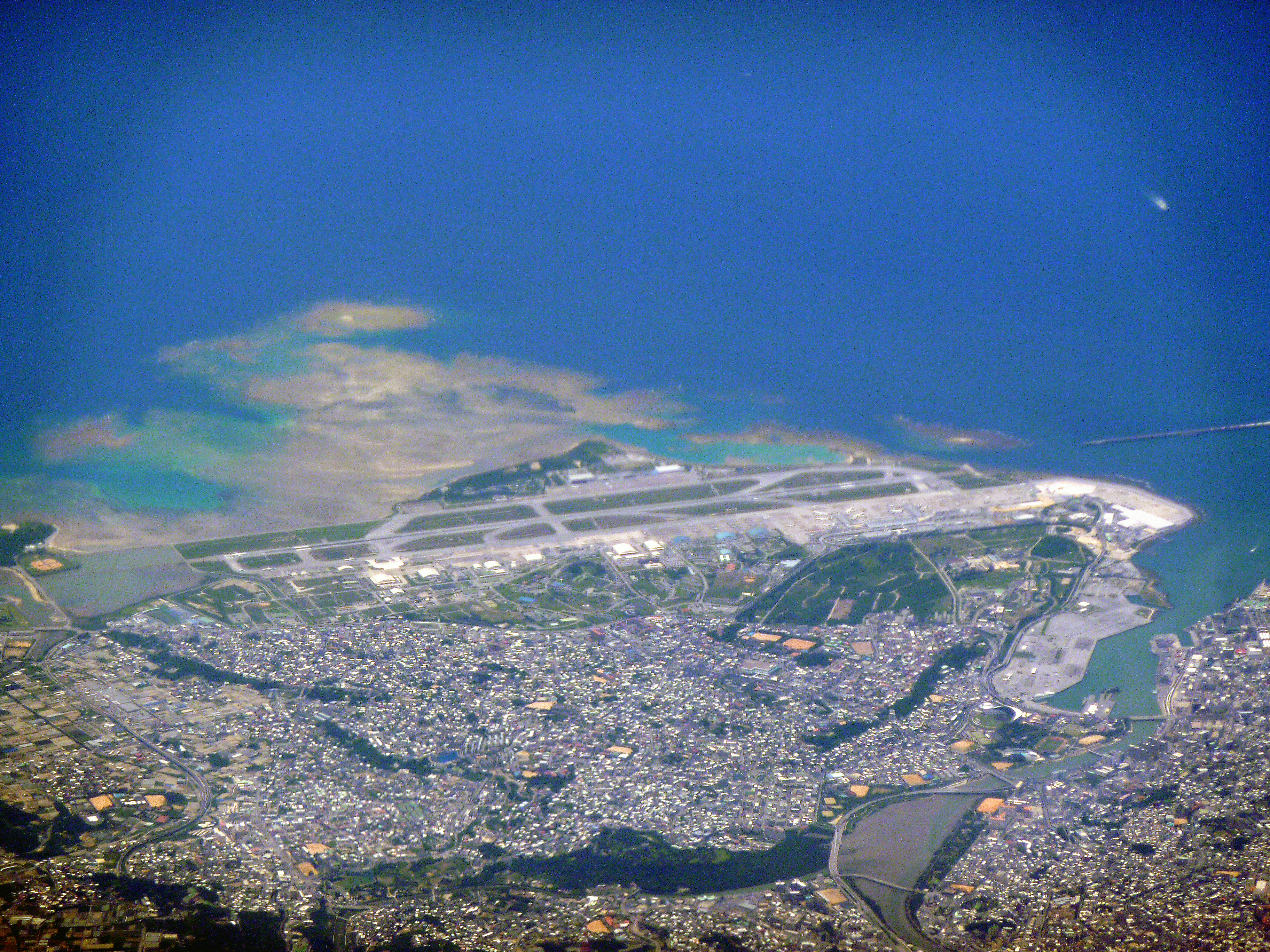 Naha Airport is a second class airport located 4 km (2.5 mi) west of the city hall in Naha, Okinawa,Japan.